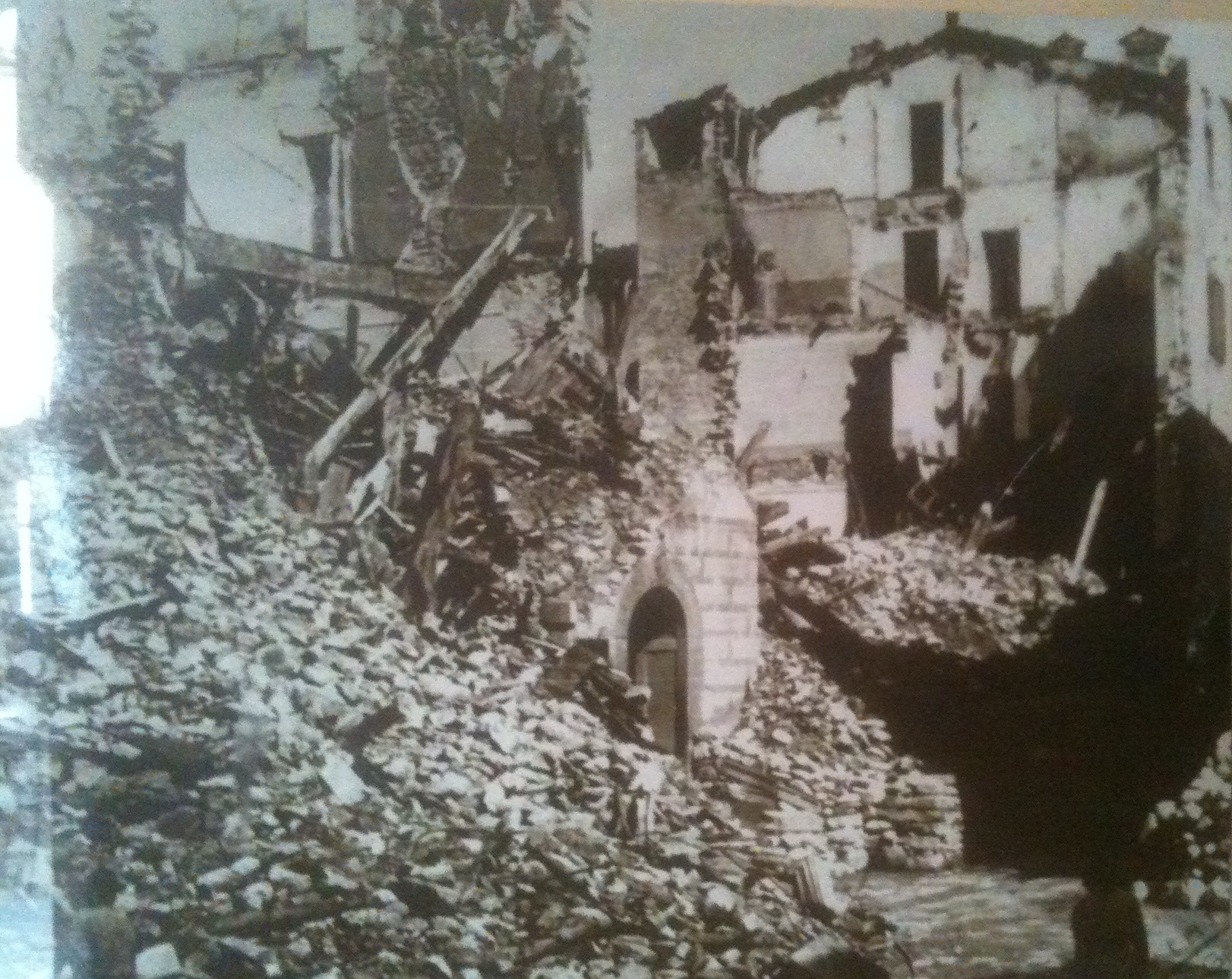 Foto Castelnuovo distrutta